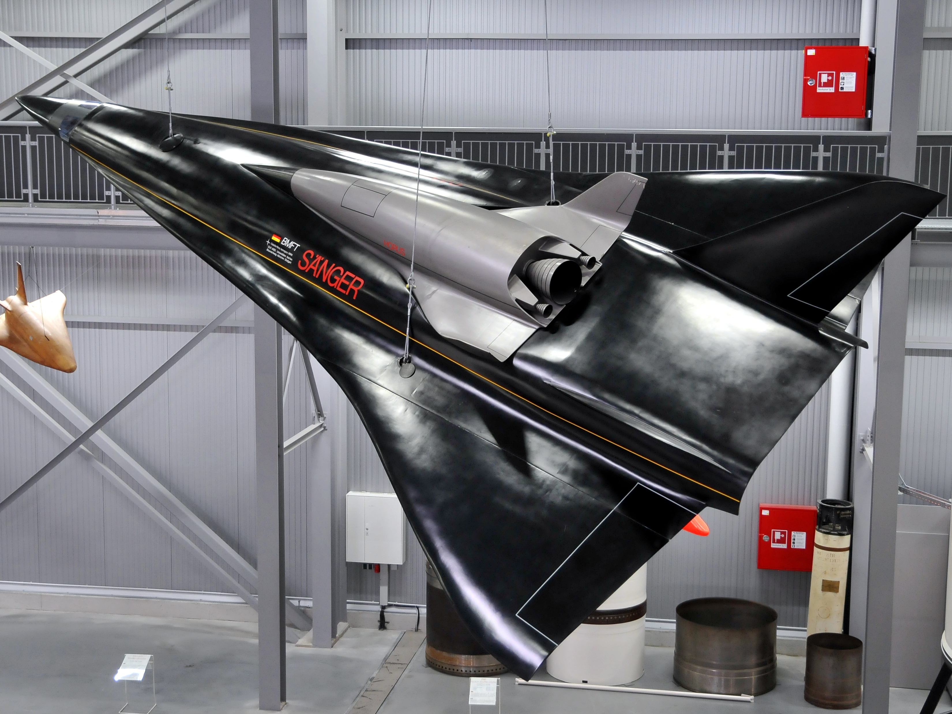 Saenger Spaceshuttle Model